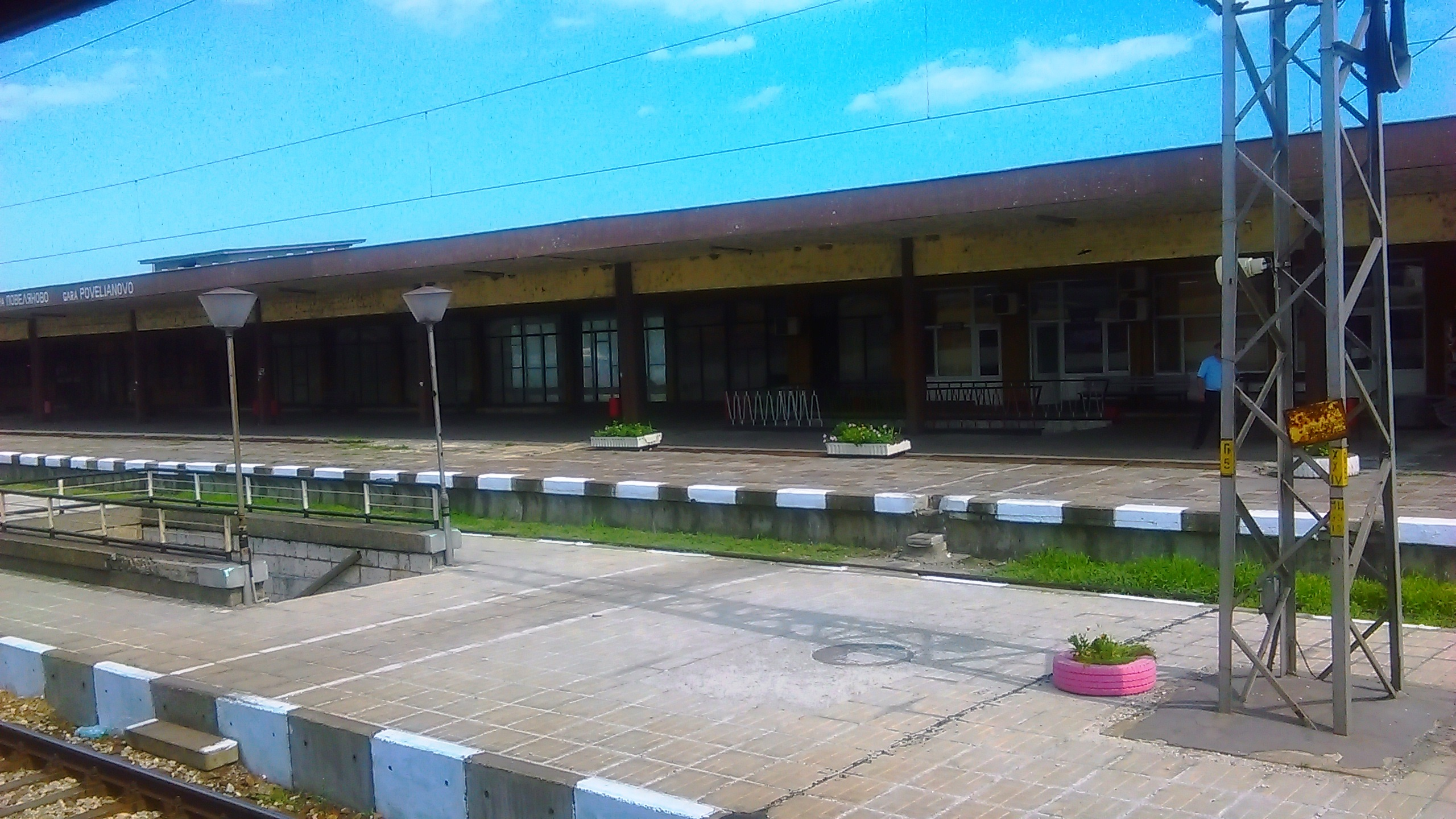 Povelyanovo railway station, Devnya, Bulgaria